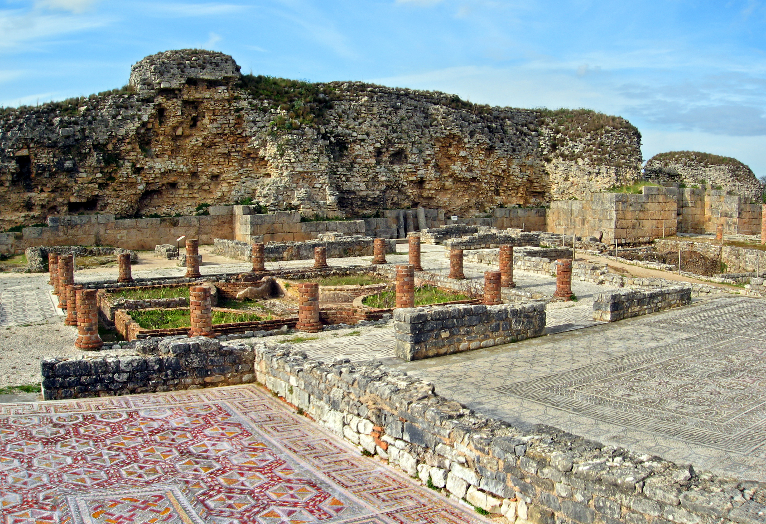 Conimbriga